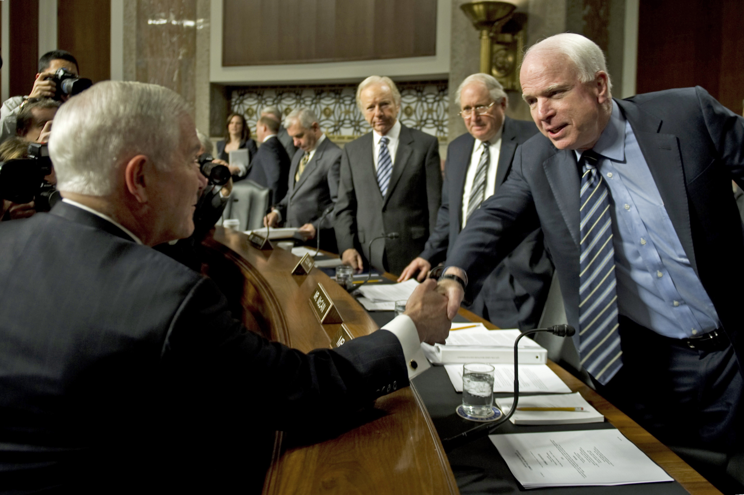 Secretary of Defense Robert M. Gates greets Sen. John McCain prior to testimony before the Senate Armed Services Committee on Dec. 2, 2010. Gates was joined by Chairman of the Joint Chiefs of Staff Adm. Mike Mullen, Department of Defense General Counsel Jeh C. Johnson and Commander, U.S. Army Europe Gen. Carter Ham regarding the findings of the "Don't Ask, Don't Tell" Comprehensive Working Group report.